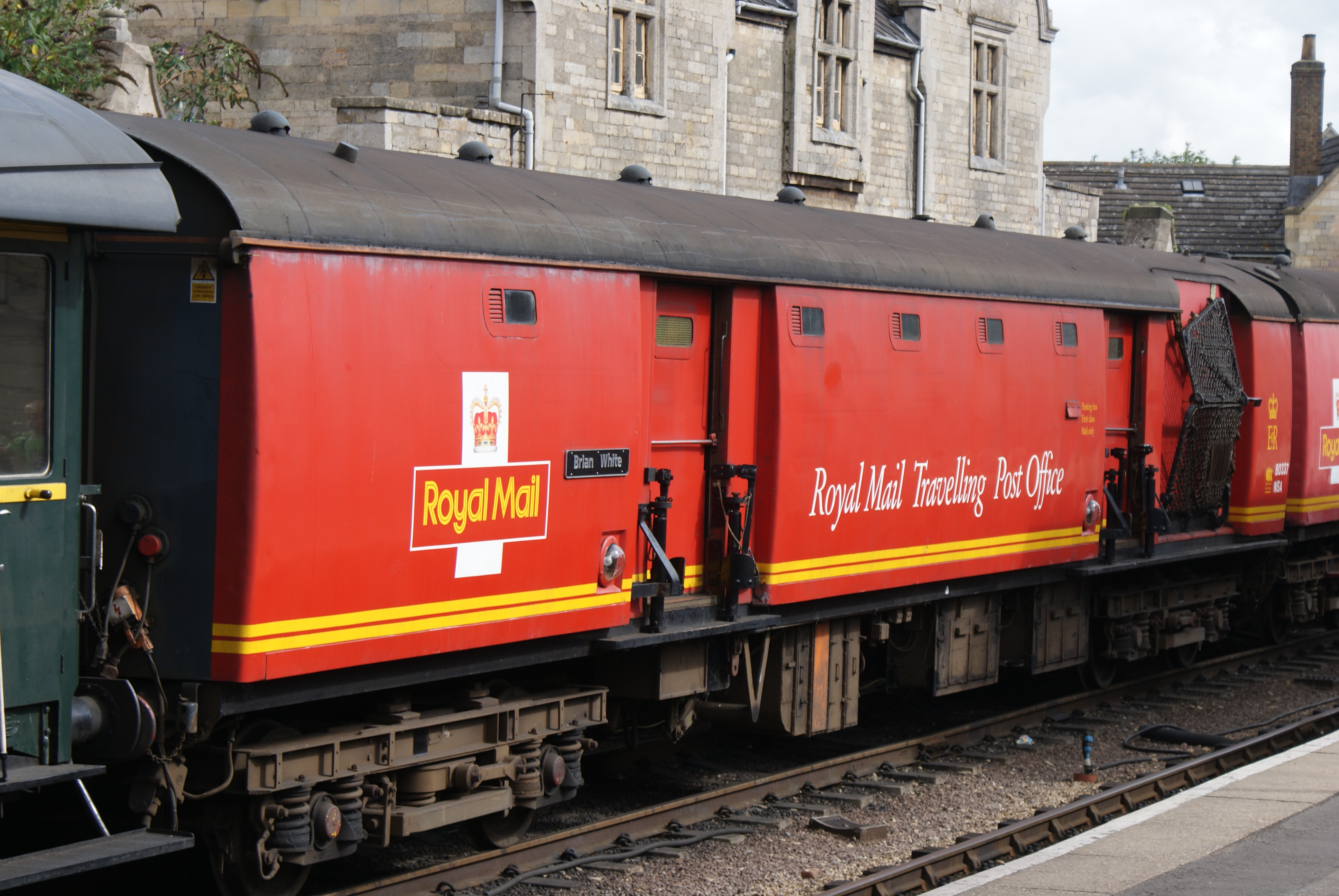 BR Mark 1 80337 "Brian White"